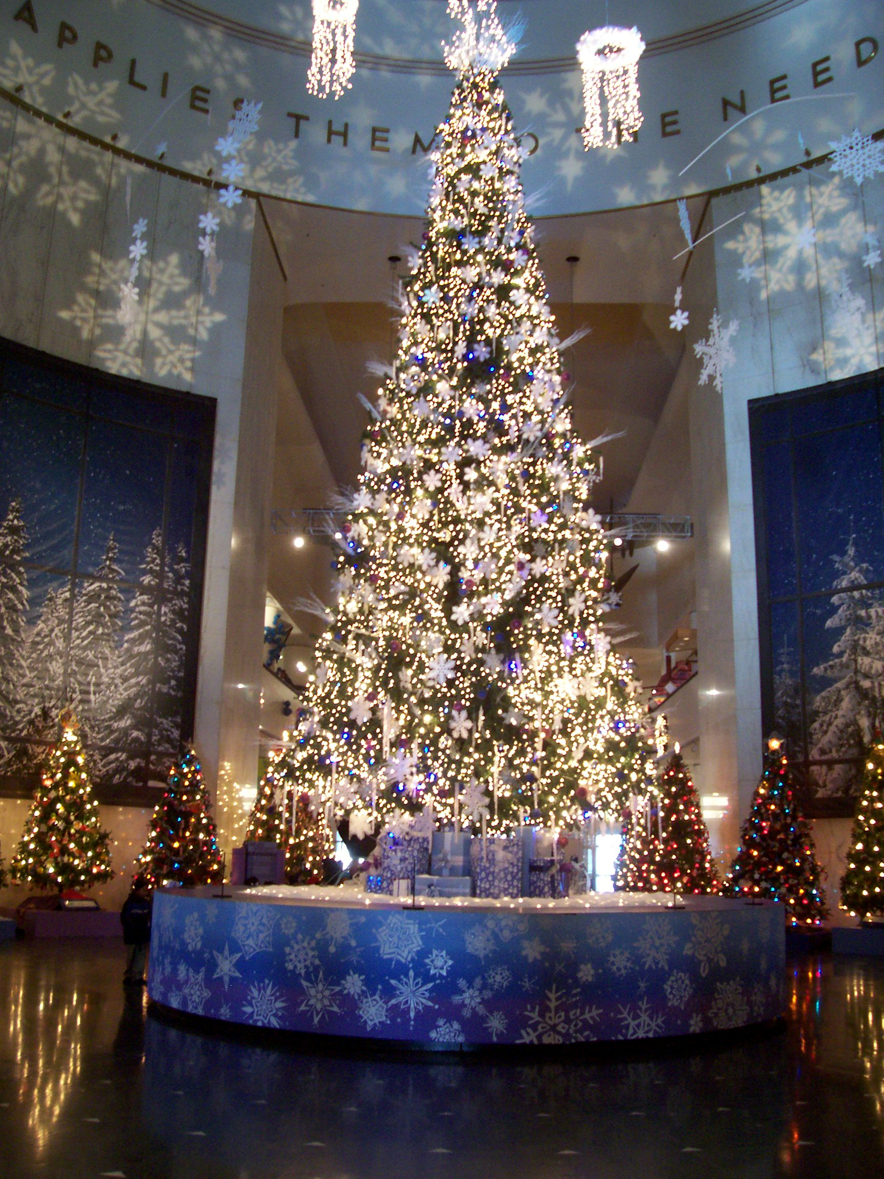 The Christmas Around the World exhibit in the rotunda at the Museum of Science and Industry in Chicago, Illinois, USA.